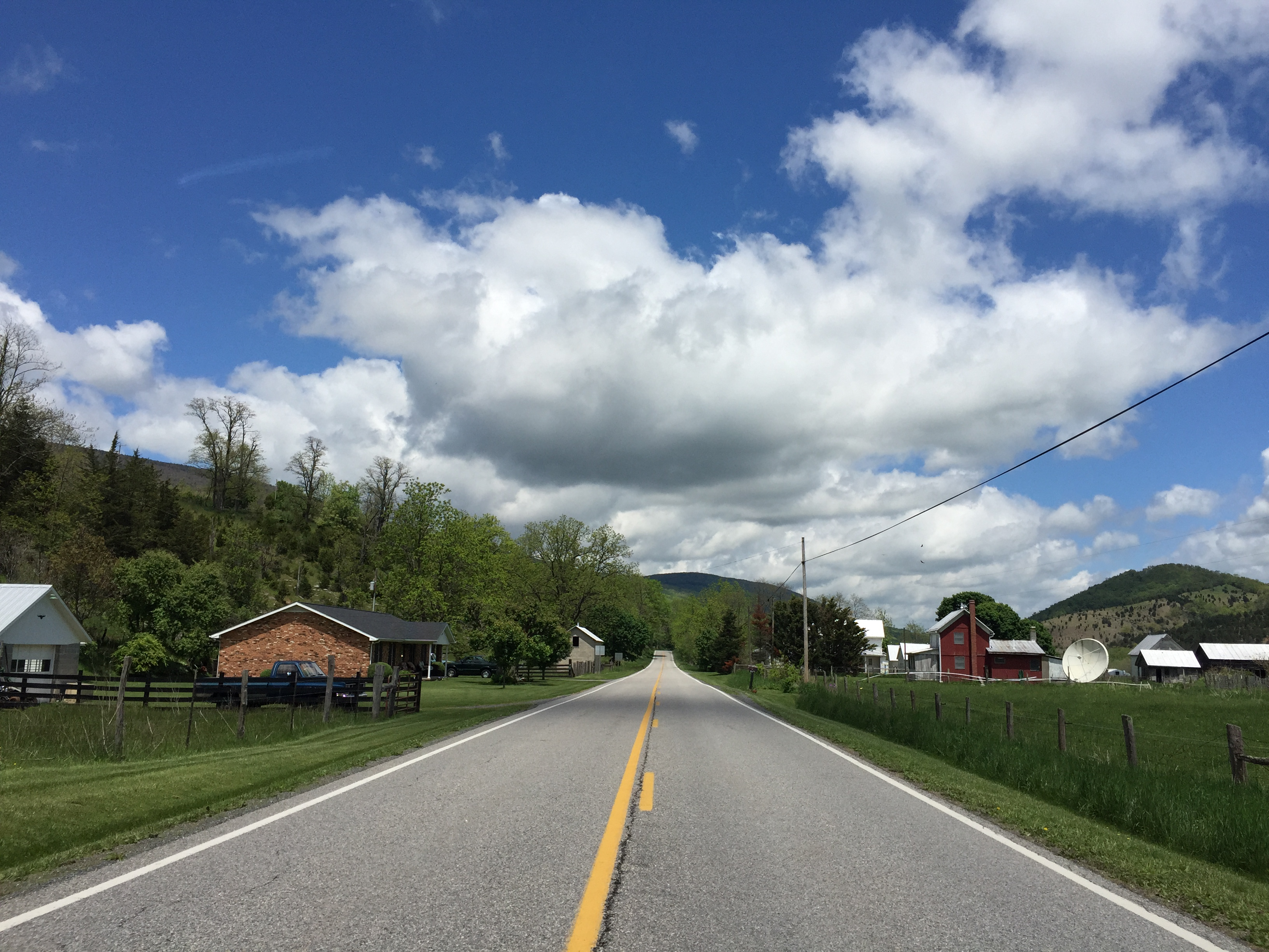 View north along Potomac River Road (U.S. Route 220) near Forks of Waters in Highland County, Virginia